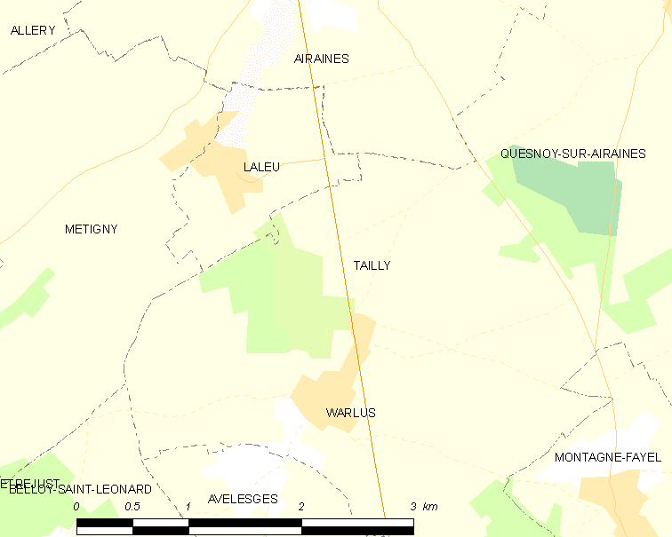 Map of French municipality Tailly